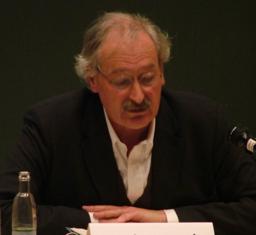 Axel Honneth 2008 in Jena